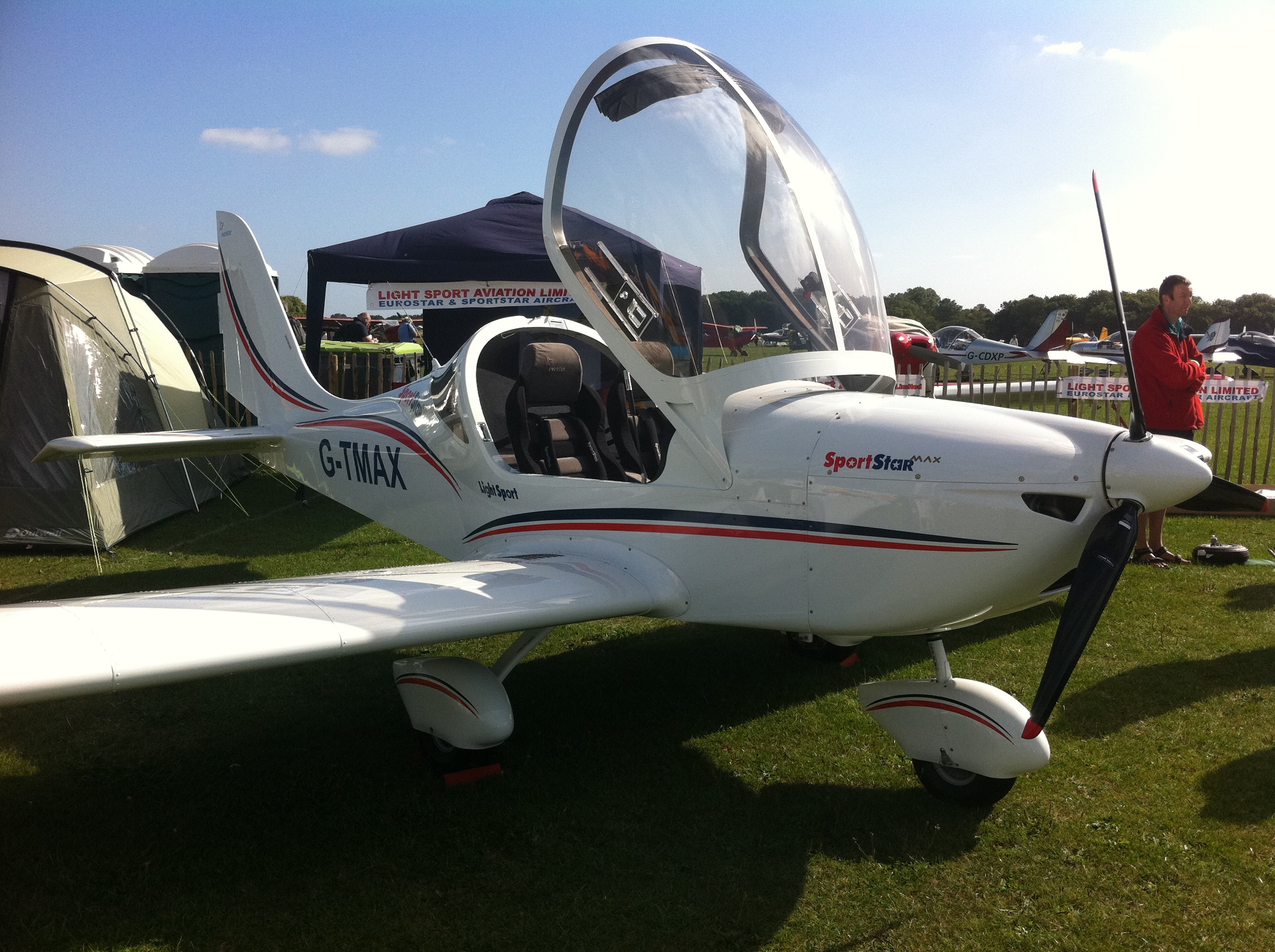 At Sywell Airfield